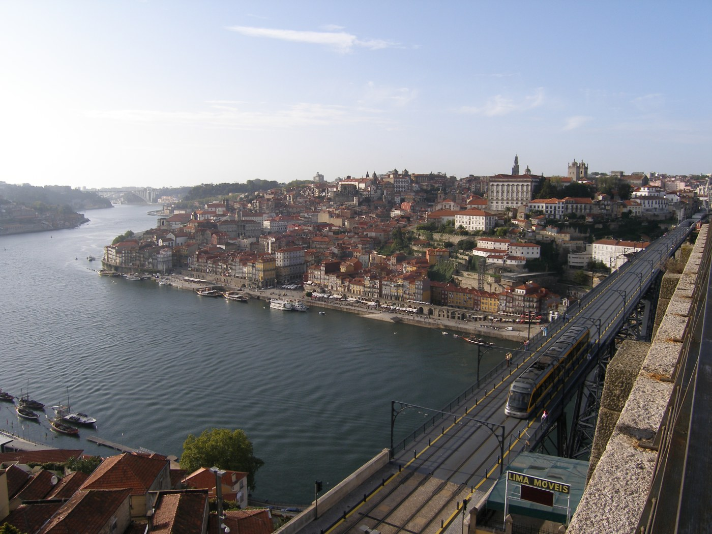 Metro do Porto train crossing Ponte Dom Luis Bridge. Metro do Porto Zug überquert die Ponte Dom Luis Brücke. Octobre, 8th 2006 8. Oktober 2006 own work Photographer/Fotograf: user:Gregor91